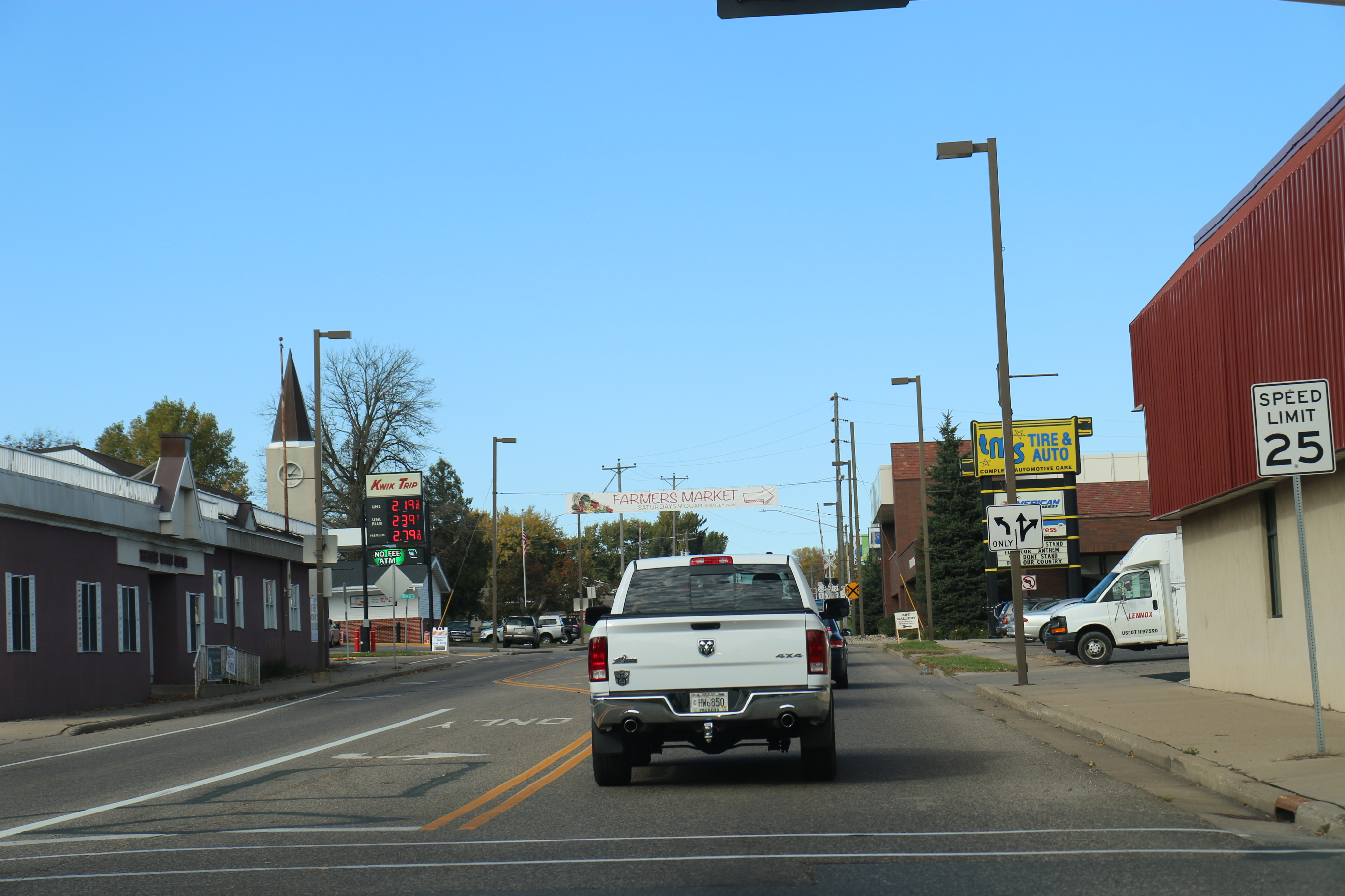 Downtown Baldwin, Wisconsin on U.S. Route 63